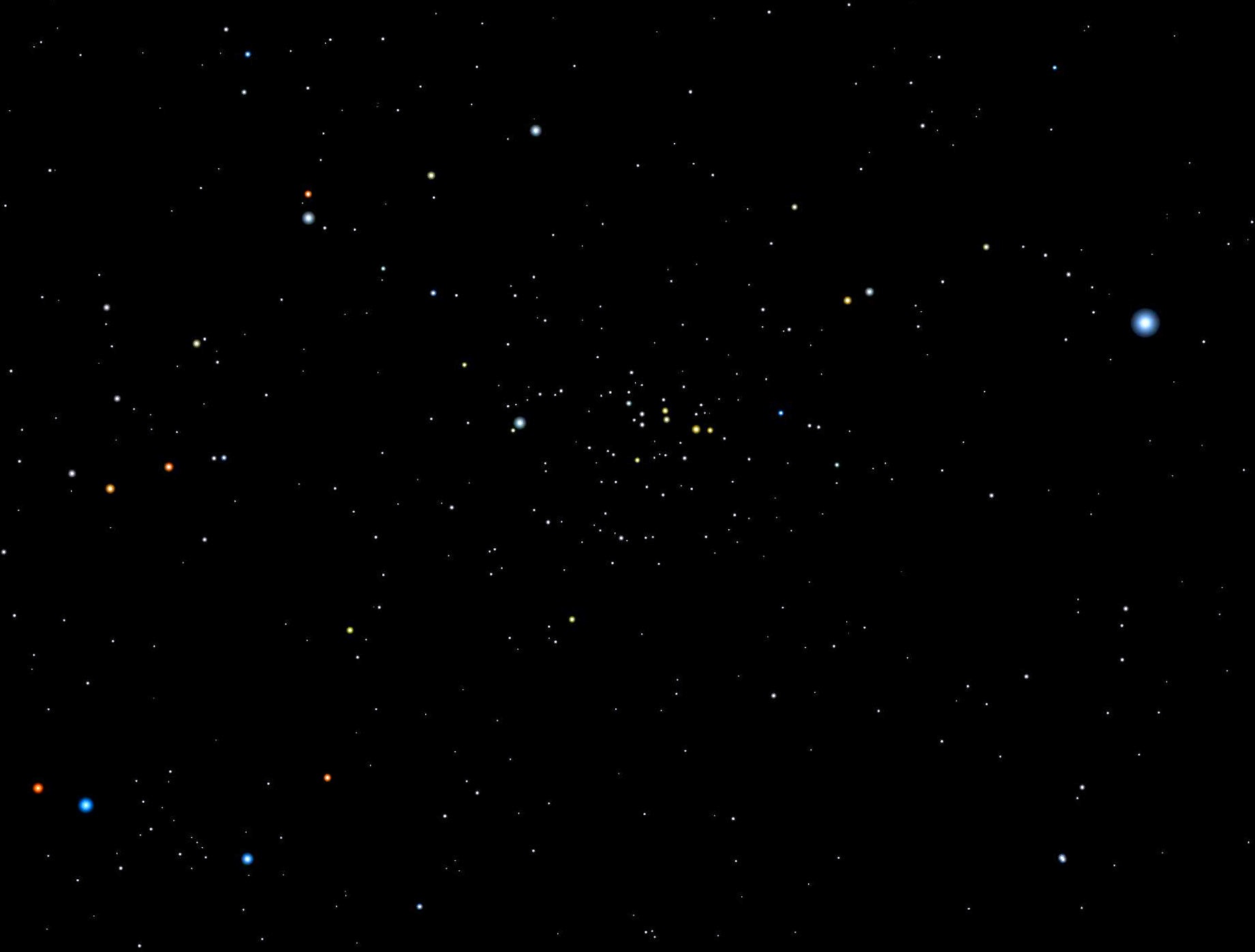 Open cluster NGC 2360. Version with brightened stars for illustrative purposes